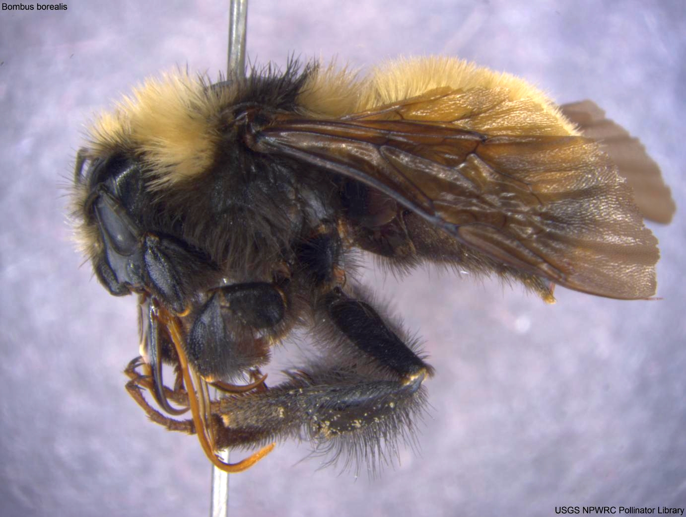 Bombus borealis in the USGS Pollinator Library